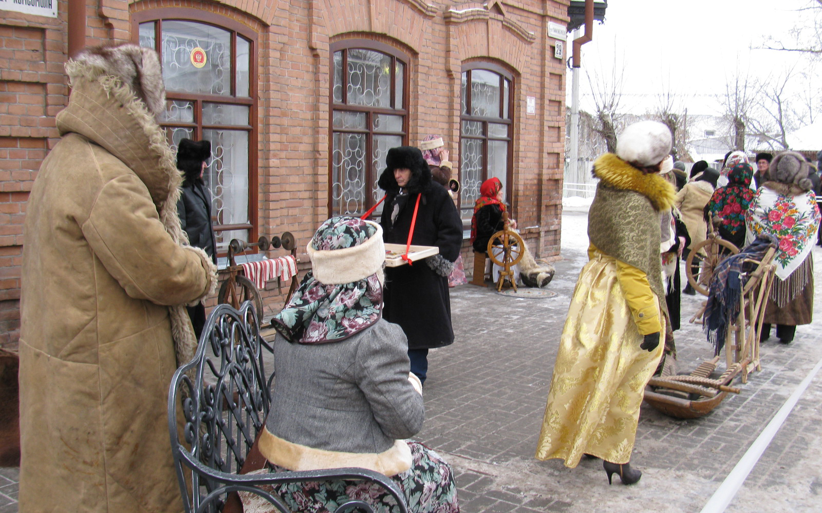 Winter Olympics torch relay 2014. Kuybyshev. City's museum meating a torchbearers